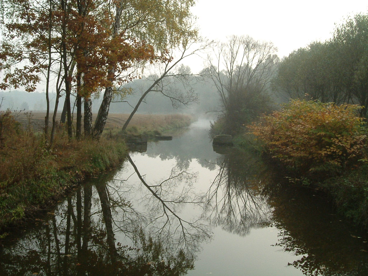 Bolina